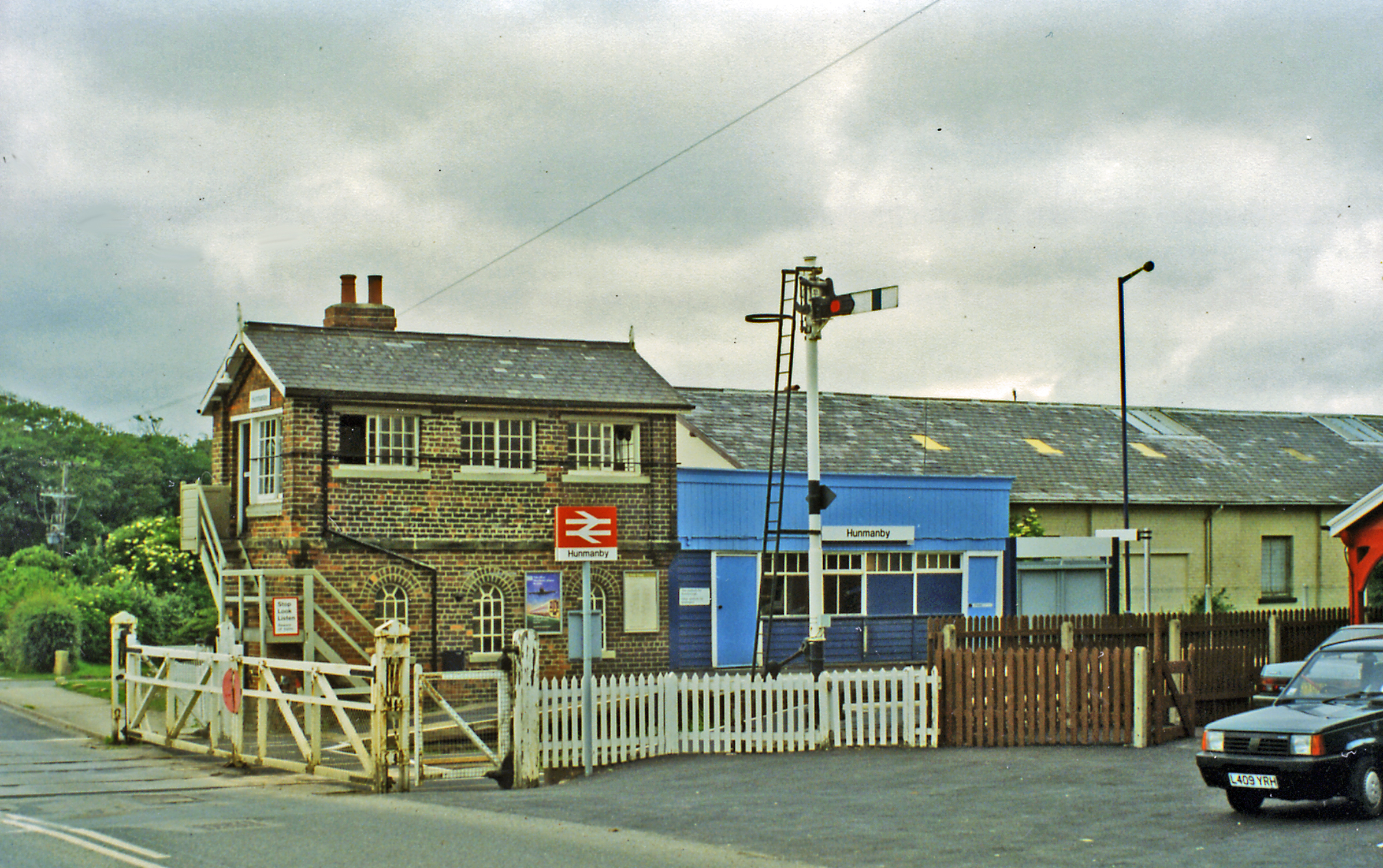 Hunmanby station and level-crossing, 1997. View westward on the ... road, across the ex-NER (Hull/Leeds etc.) - Bridlington - Scarborough line. The crossing was still controlled by the local signalbox, which is prominent.